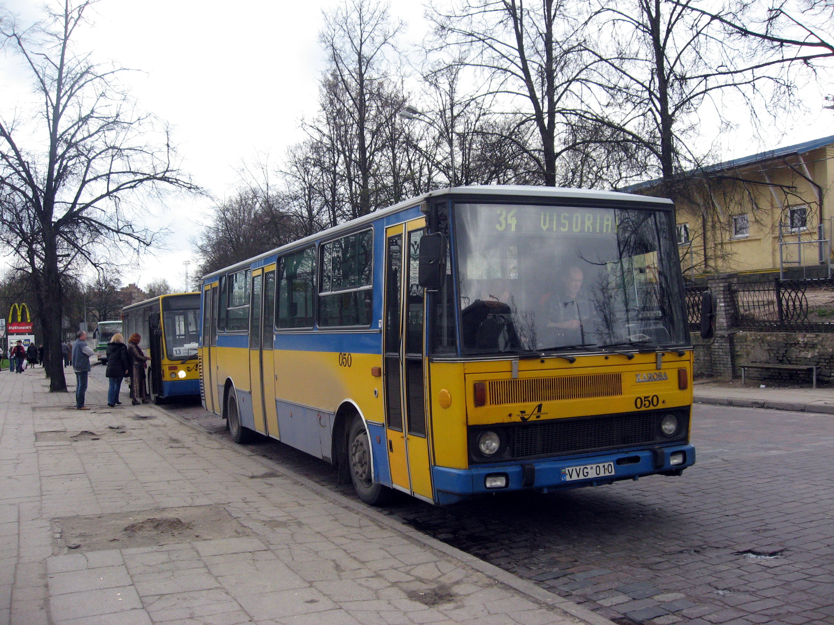 Karosa B832 in Vilnius, Lithuania. Year built 1999.